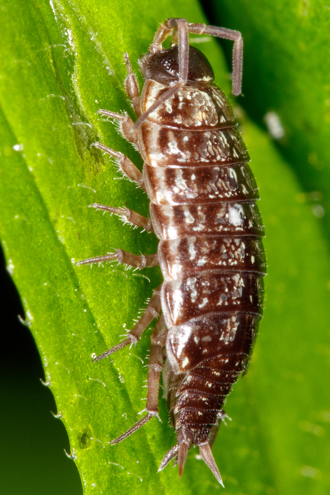 Common striped woodlouse (fast woodlouse, Philoscia muscorum). Zakole Wawerskie, Las, Wawer, Warsaw, Poland.